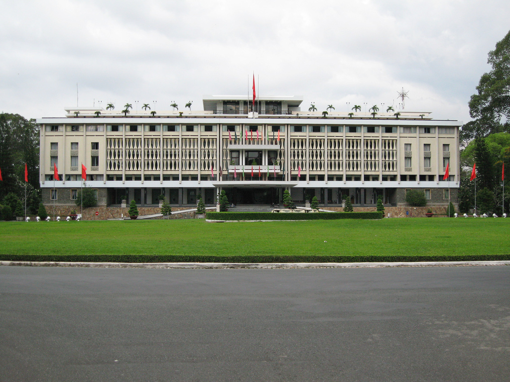 Reunification Palacem front view